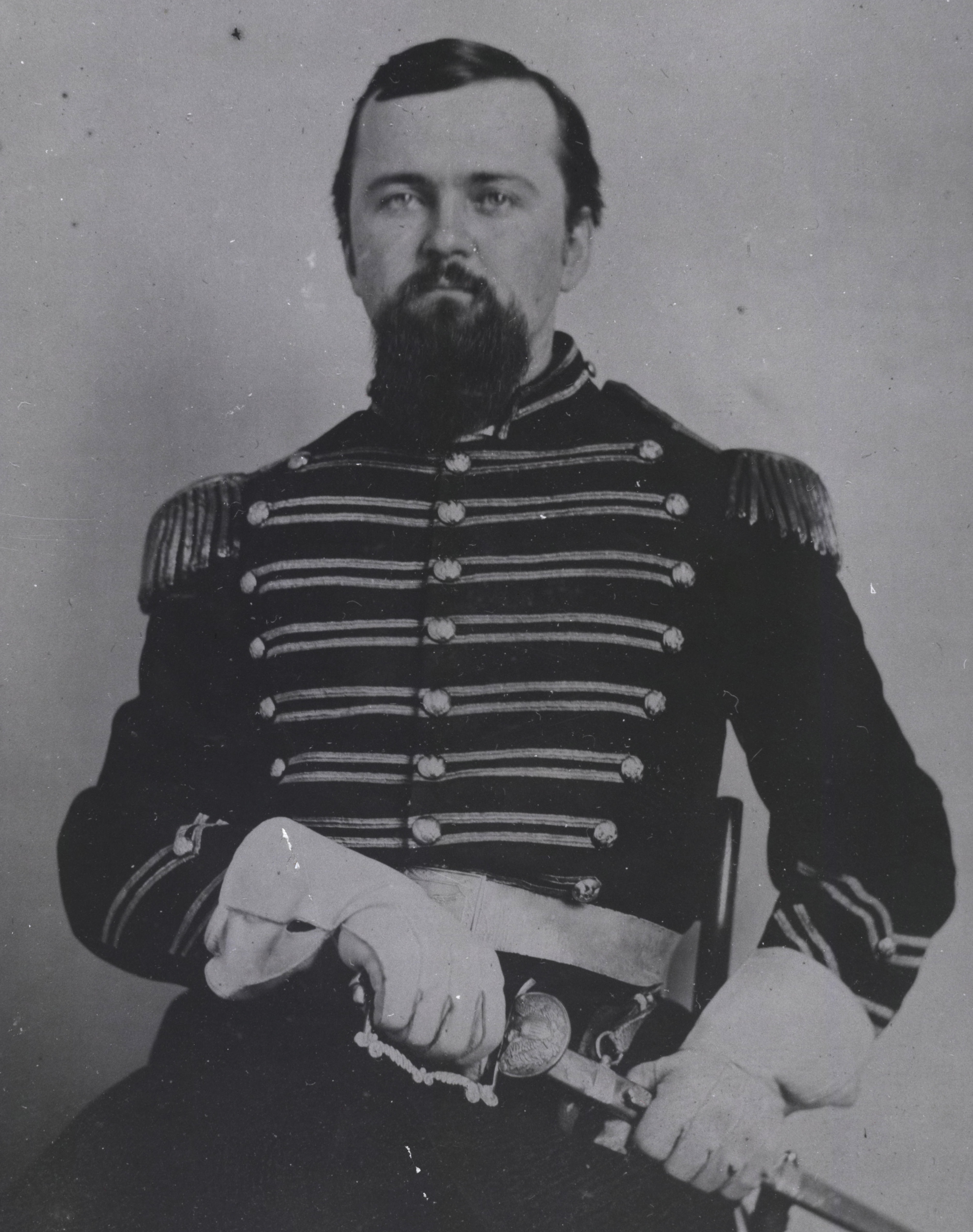 A posed photograph of William L. Saunders.